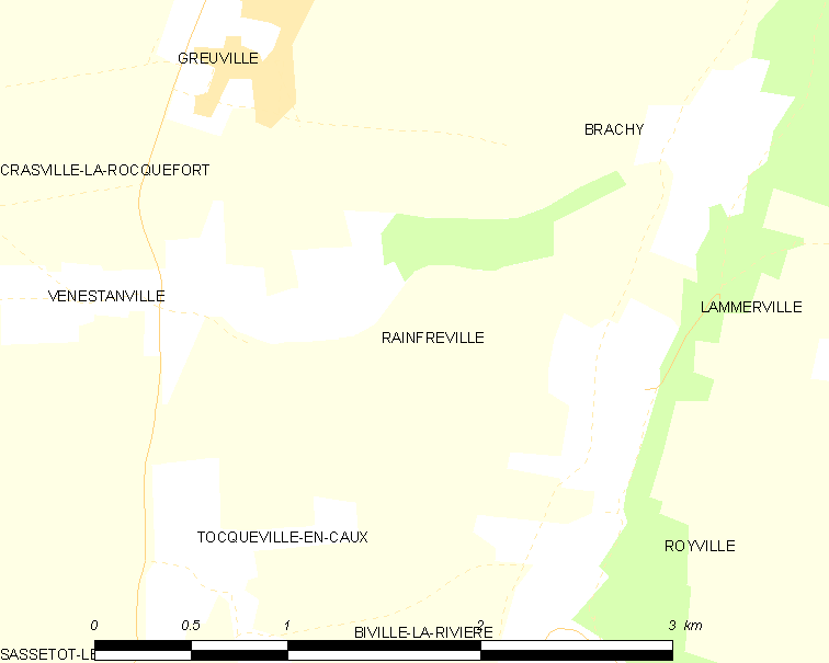 Map of French municipality Rainfreville